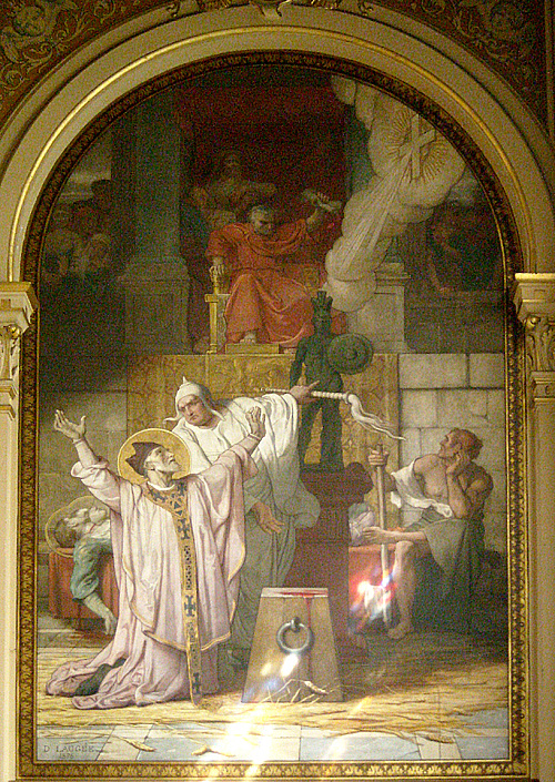 Mort de Saint Denis l’Aréopagite in the église de la Trinité in Paris. A study for this fresco was presented at the Salon des Beaux-Arts in 1876.